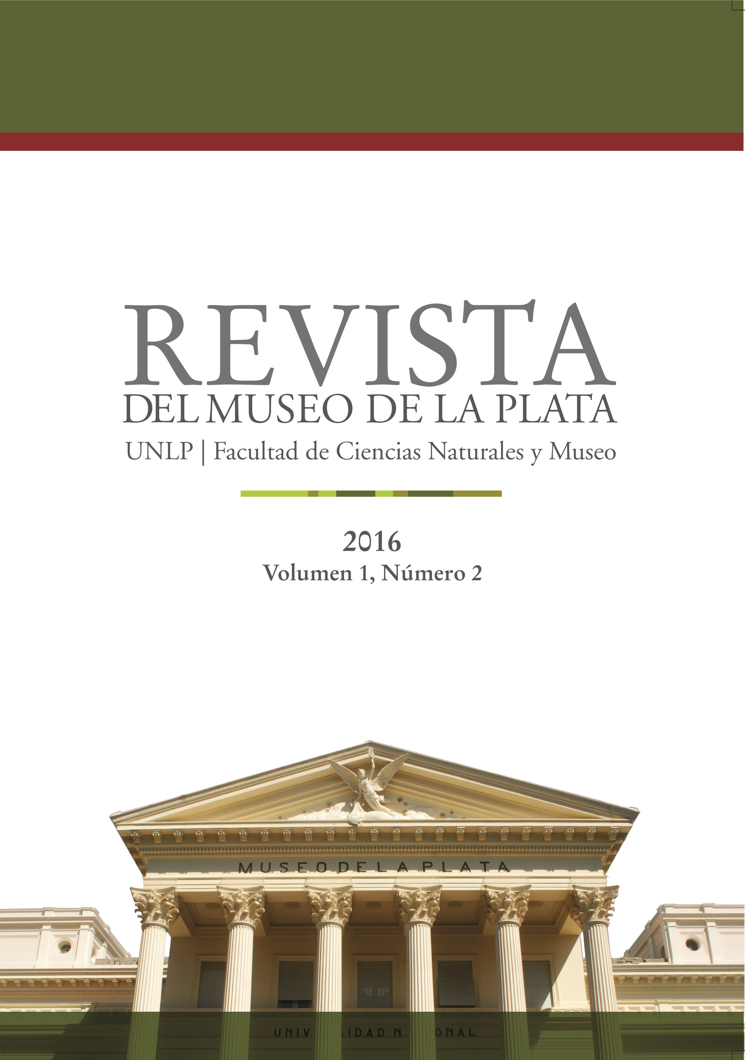 Image of the cover of the Magazine of the Museum of La Plata in its printed version in 2016.